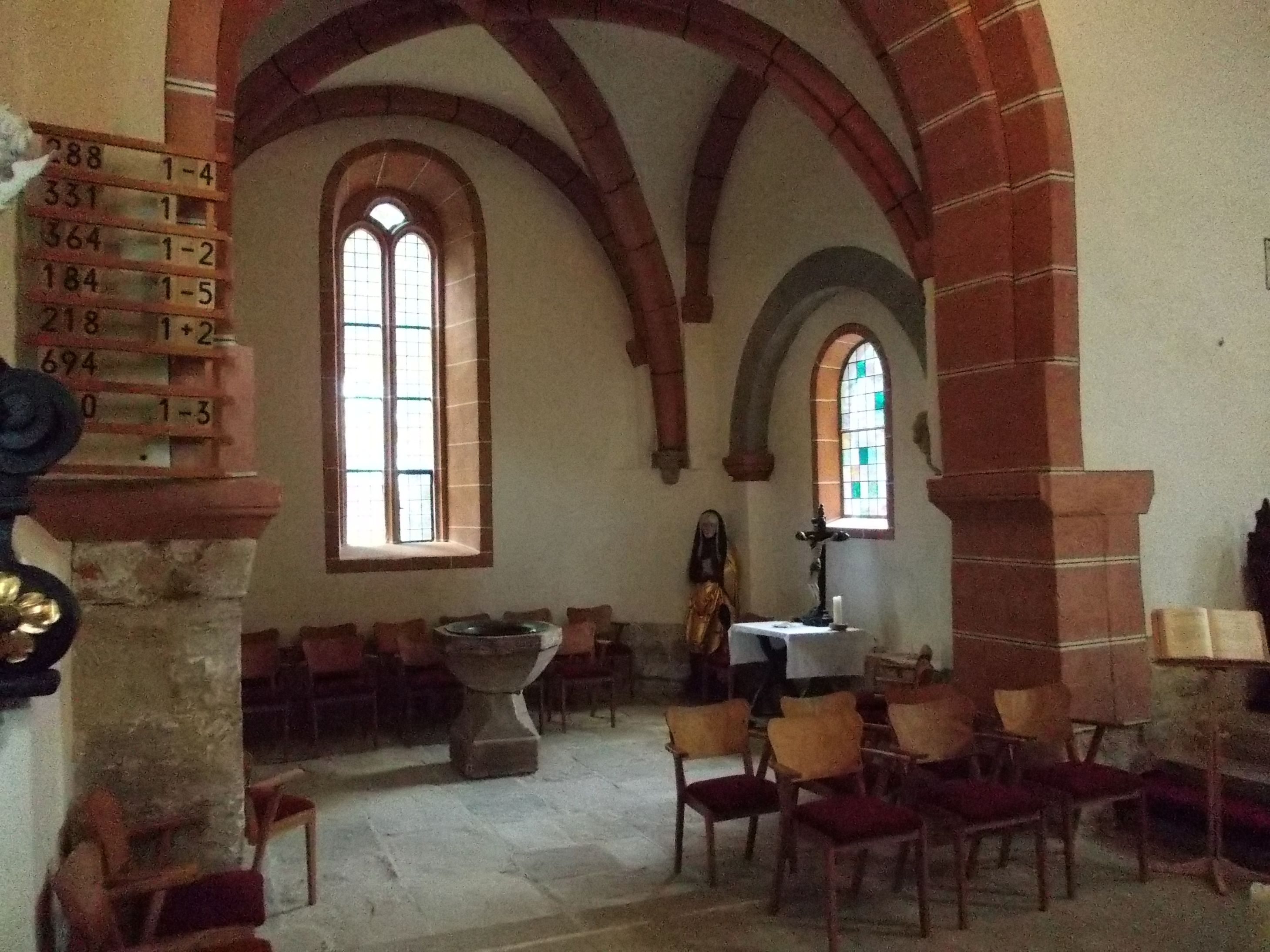 St. Mary's Chapel in St. Vitus' Church in Veitsberg (Wünschendorf/Elster, Greiz district, Thuringia)